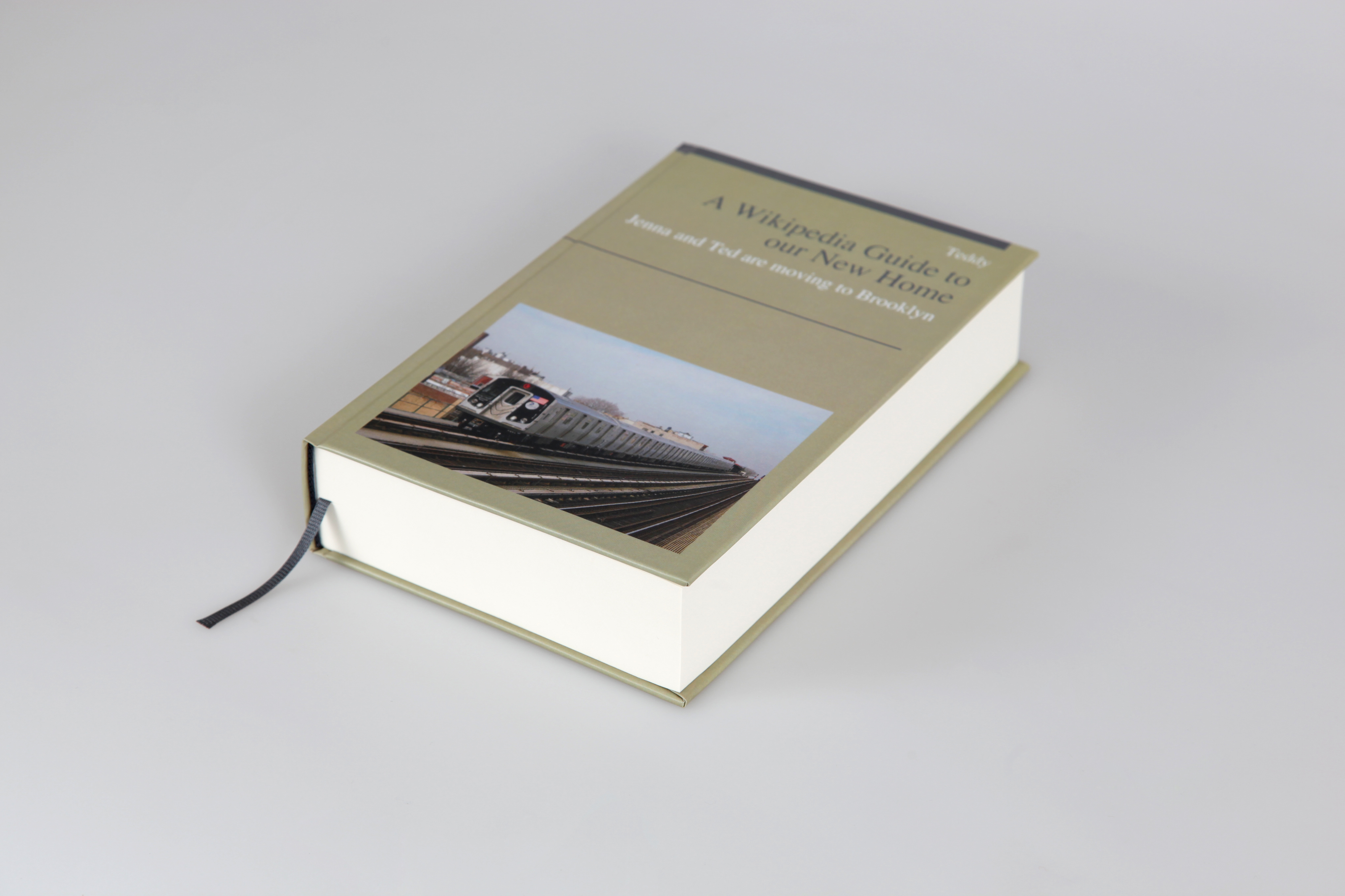 Photos of books made by PediaPress with Wikipedia content.